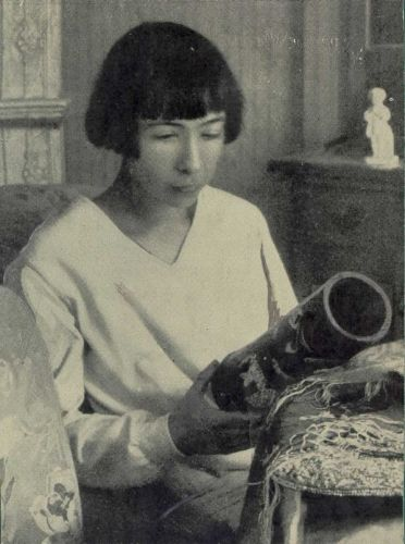 Alma Karlin (1889-1950)